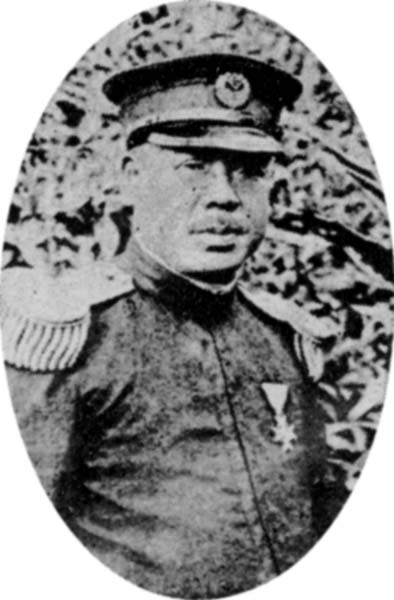 Mr. Hideo Ōta.